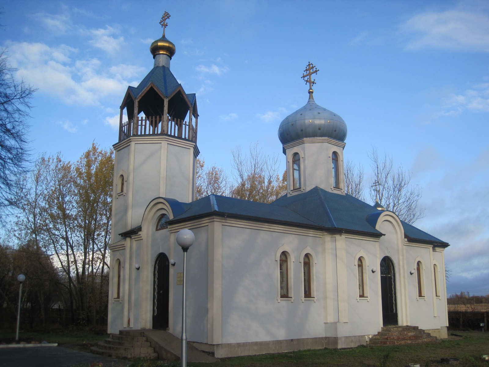 Russian Orthodox church in Donskoe, Kaliningrad Oblast